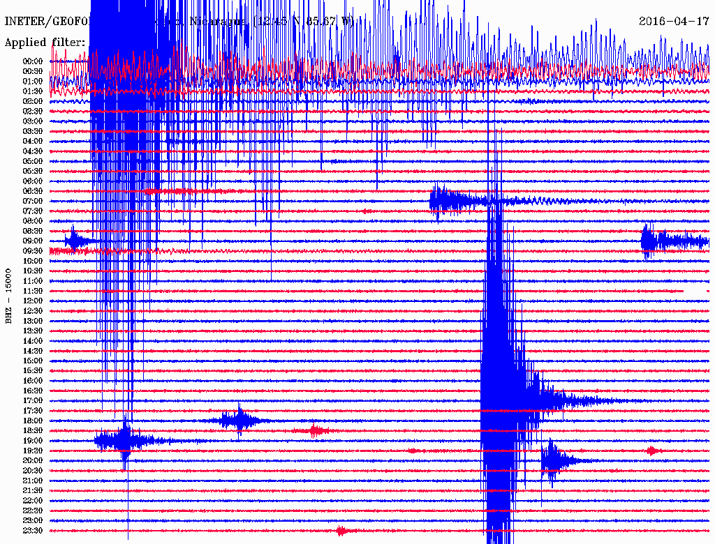 seismic record BOAB Station Nicaragua, showing 2016 Ecuador earthquake together with a 4.8 Magnitude local quake from 17:18